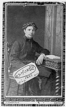 Sholom aleichem, 1877